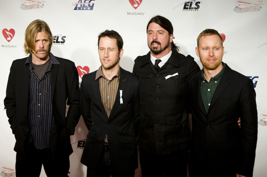 Foo Fighters